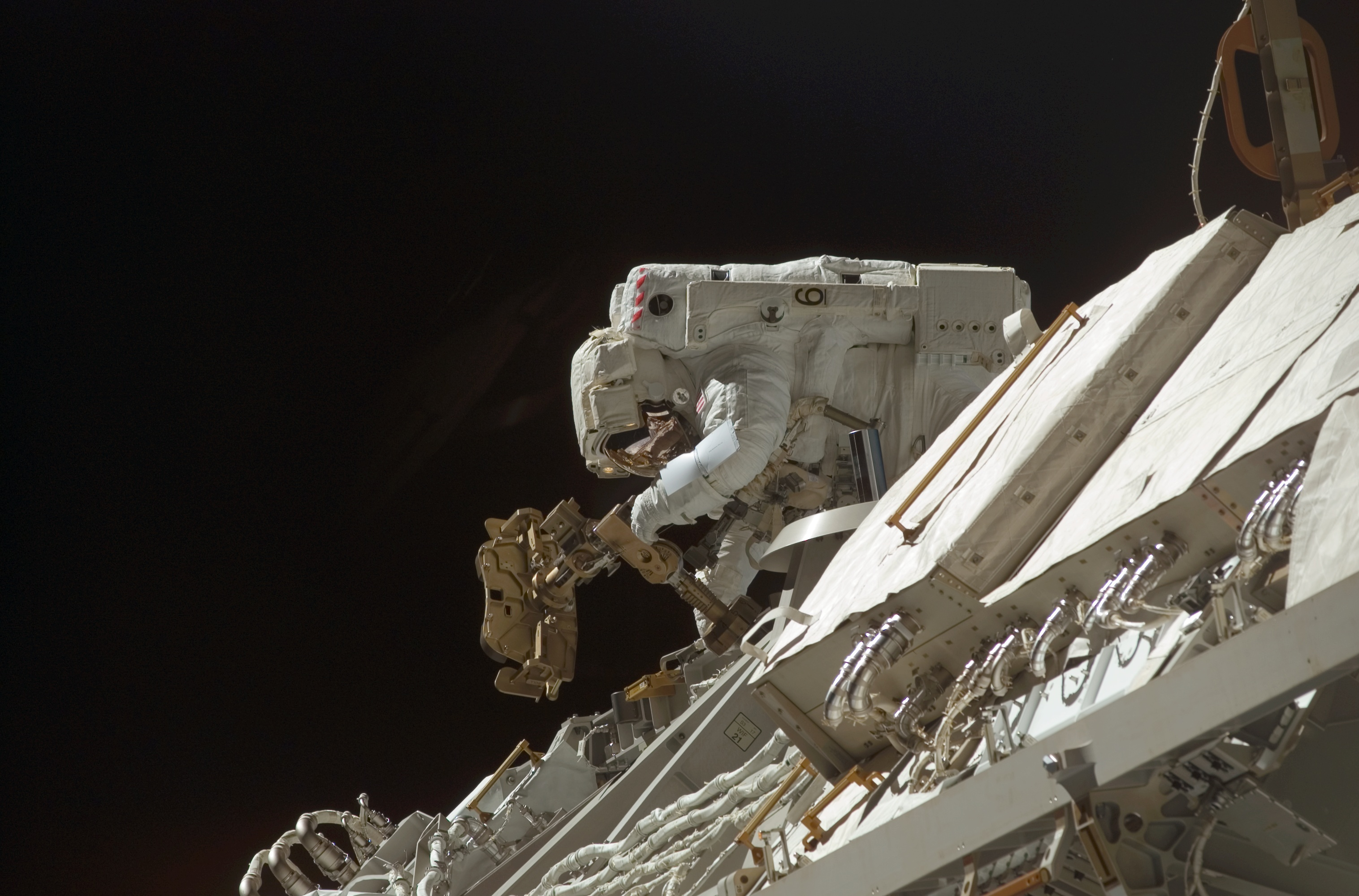 Steven Swanson, STS-117 mission specialist, participates in the mission's fourth and final session of extravehicular activity, as construction continues on the International Space Station